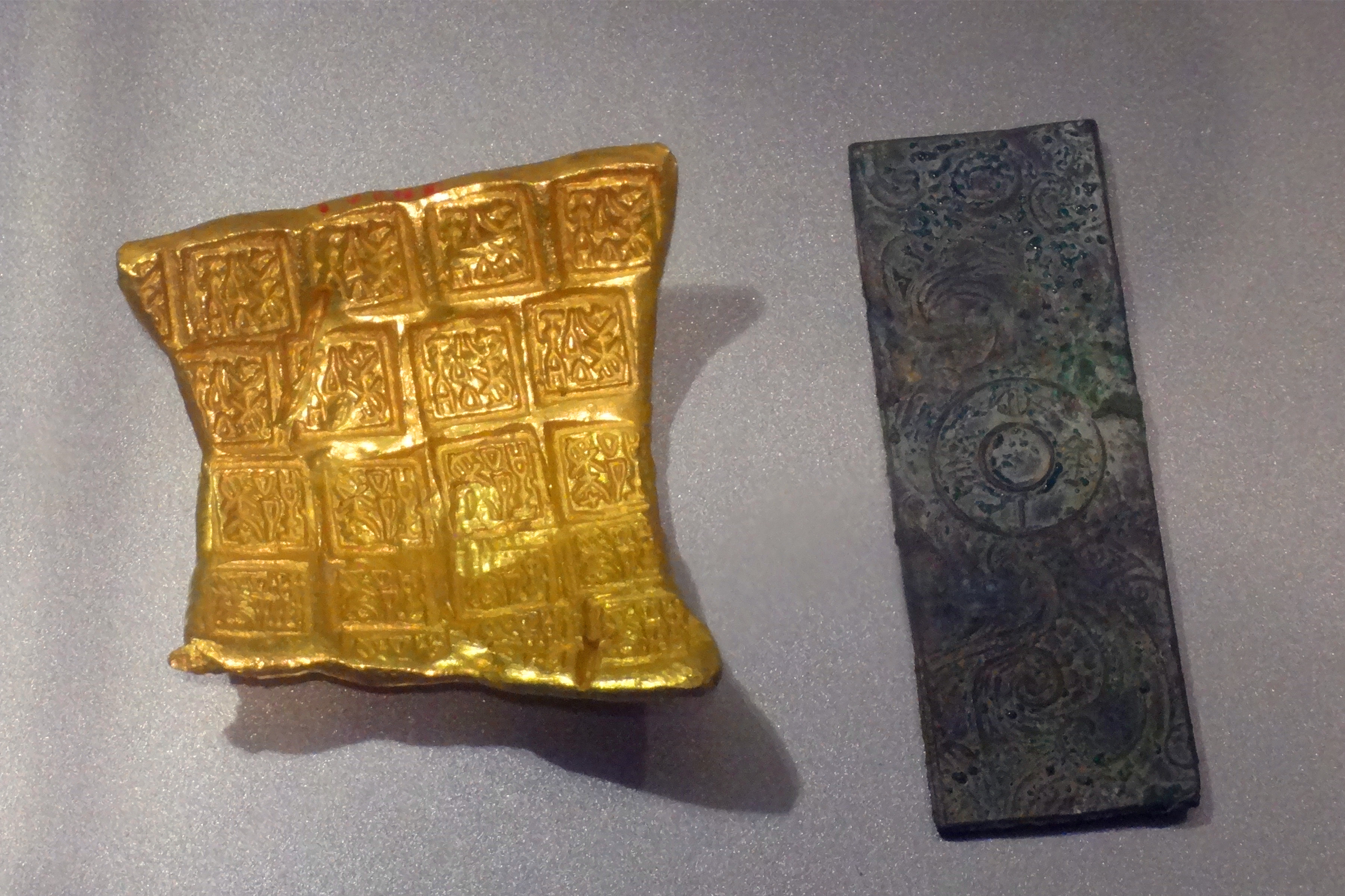 The left is a Gold Plate; the right is a Bronze Money Plate. Both of them are the currencies of the Chu State.